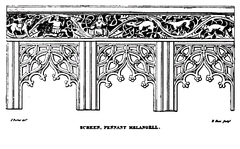 Pennant Melangell Church screen